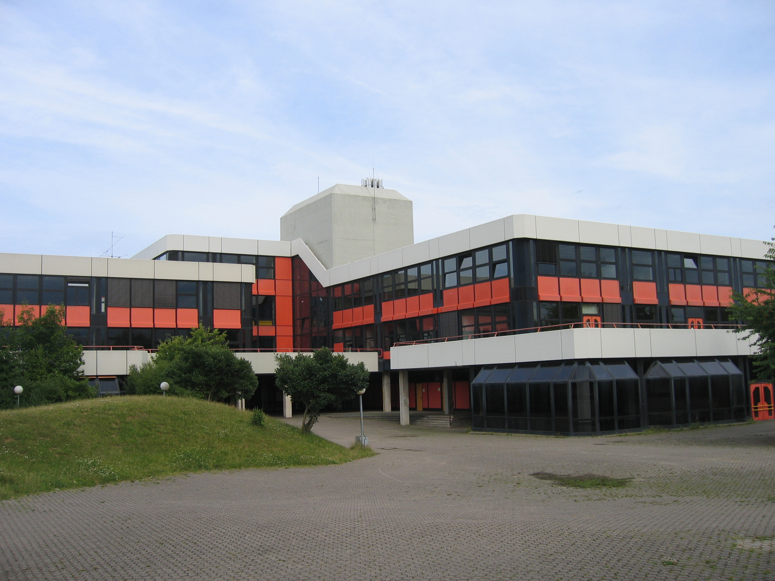 The building of the Gymnasium der Stadt Kerpen